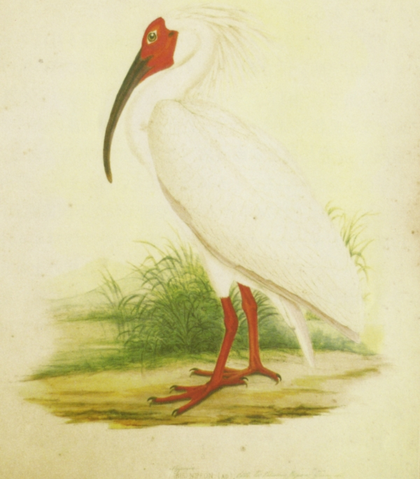 Crested ibis (Nipponia nippon)